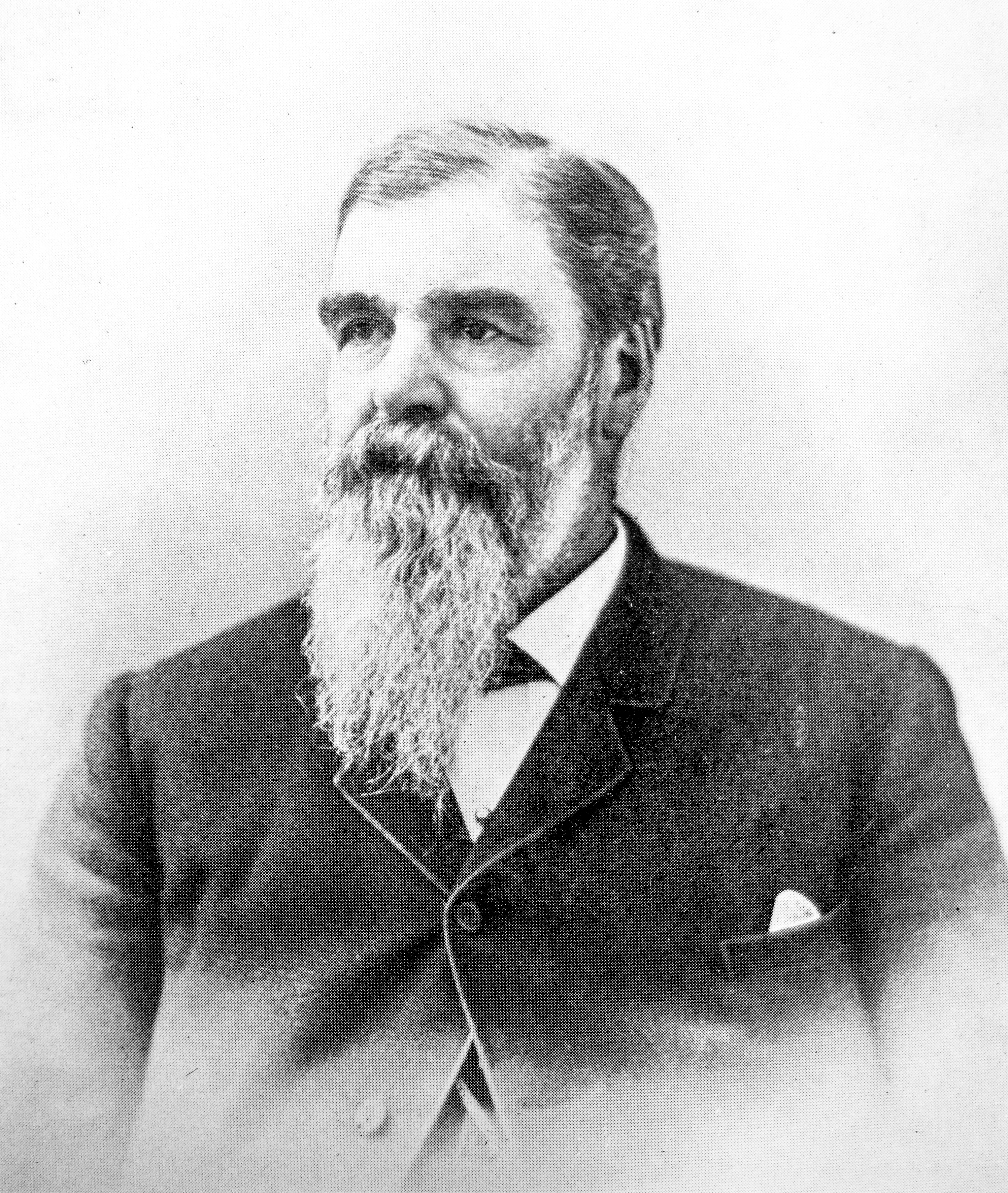 RI Lt Governor Daniel Greene Littlefield. Source: An Illustrated History of Pawtucket, Central Falls, and Vicinity, by Robert Grieve, 1897.